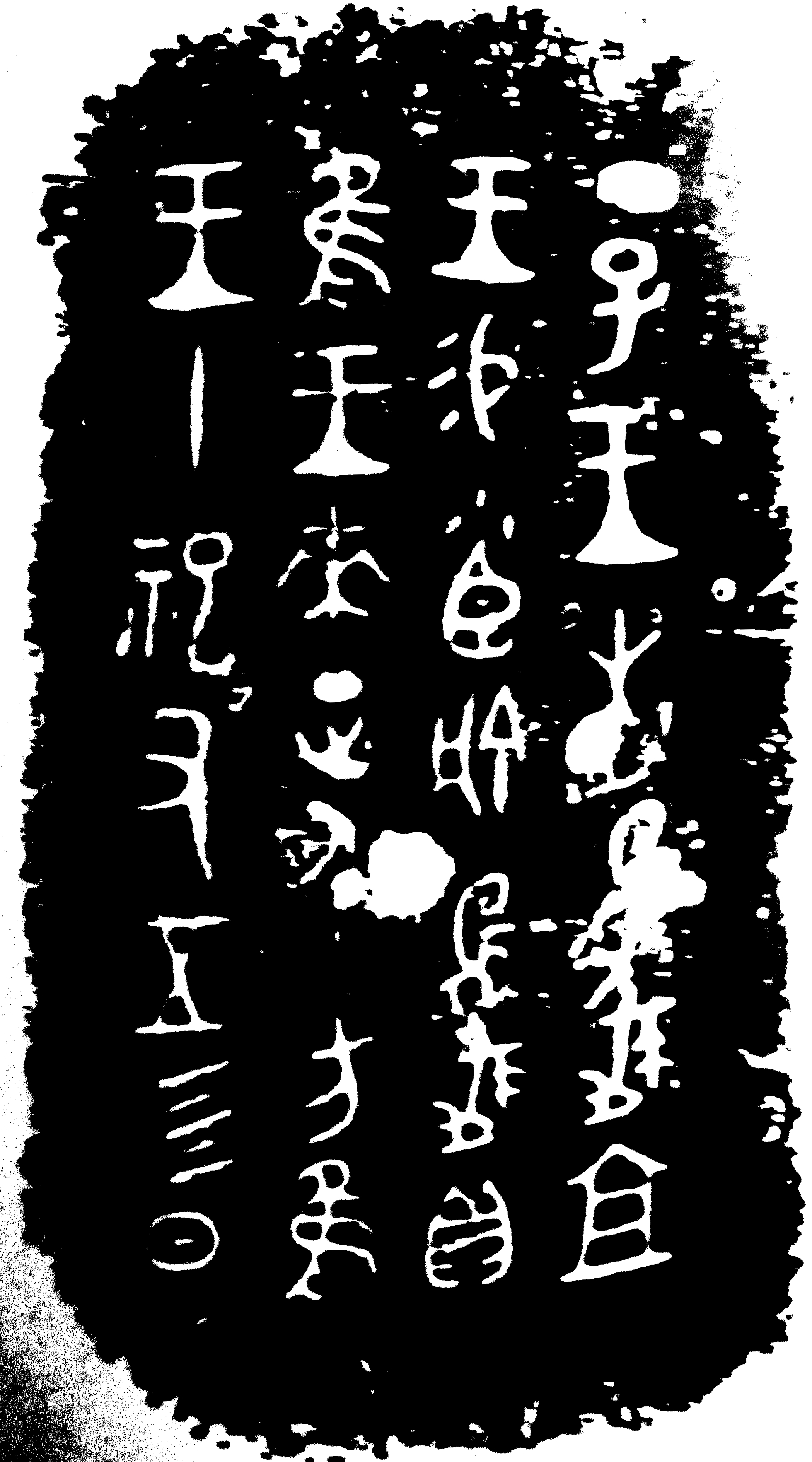 Characters on Zun of Xiaochenyu